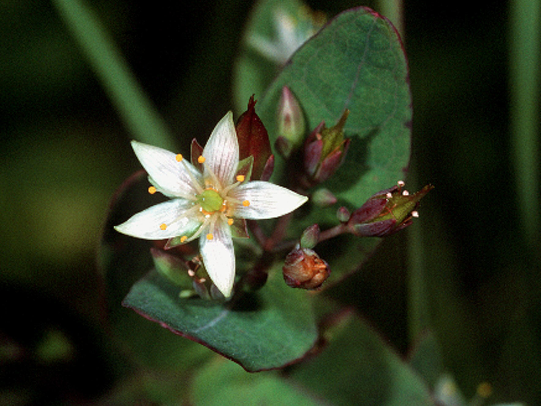 Triadenum virginicum (L.) Raf. - Virginia marsh St. Johnswort